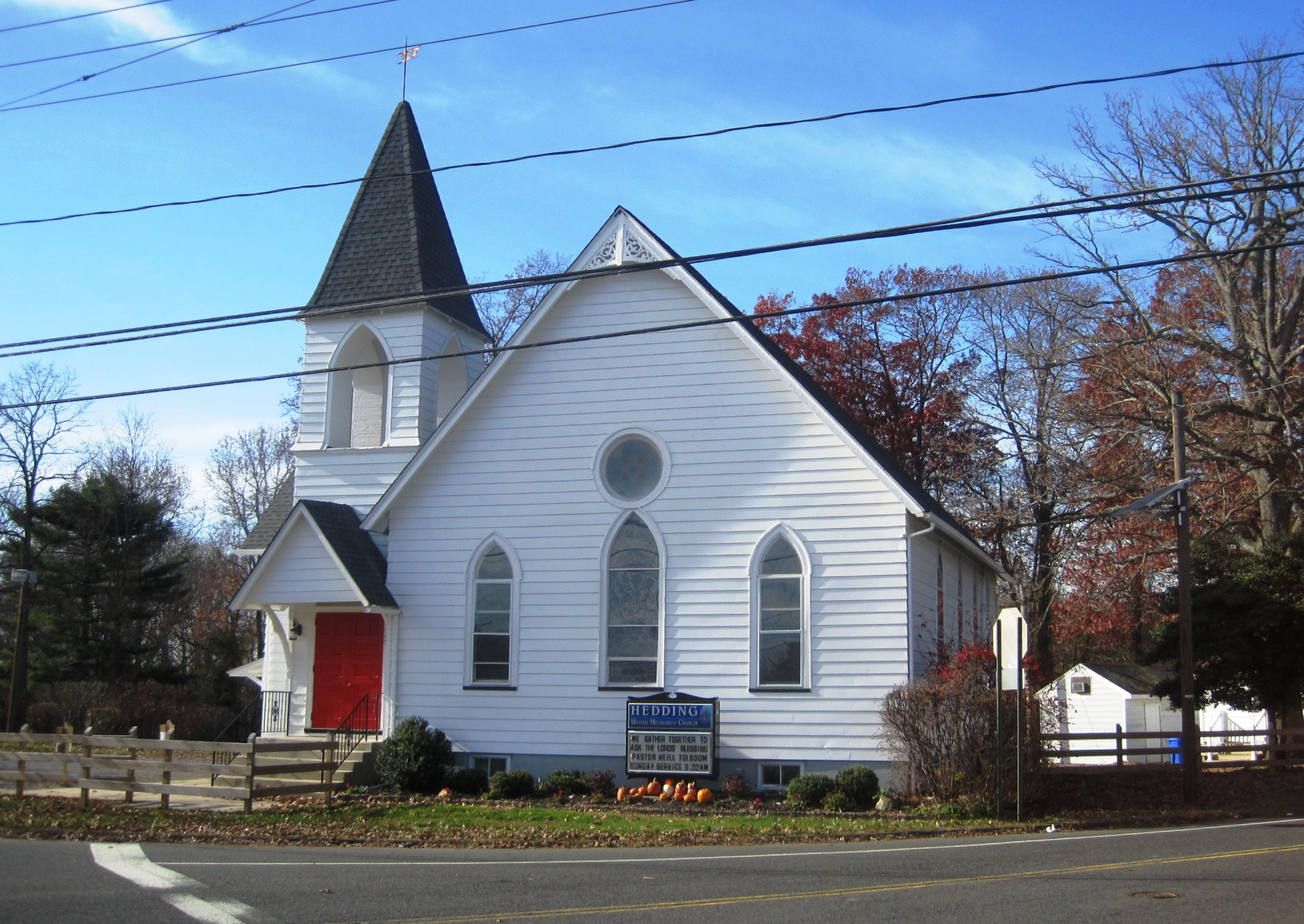 Photo of the Hedding United Methodist Church in Hedding, New Jersey, an unincorporated community within Mansfield Township. The church is located at the intersection of Old York Road (County Route 660) and Kinkora Road (CR 678).